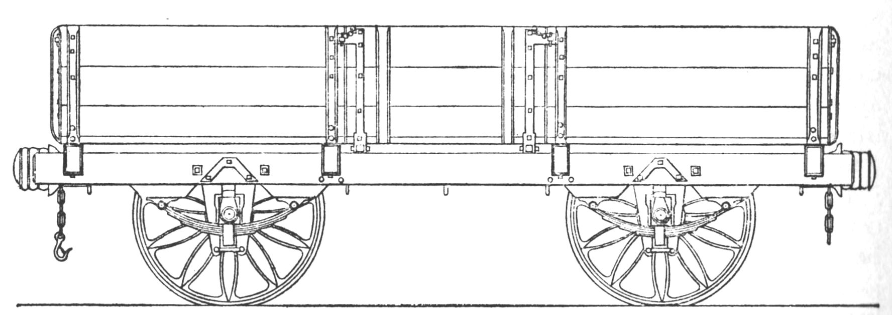 own scan of 1846 picture